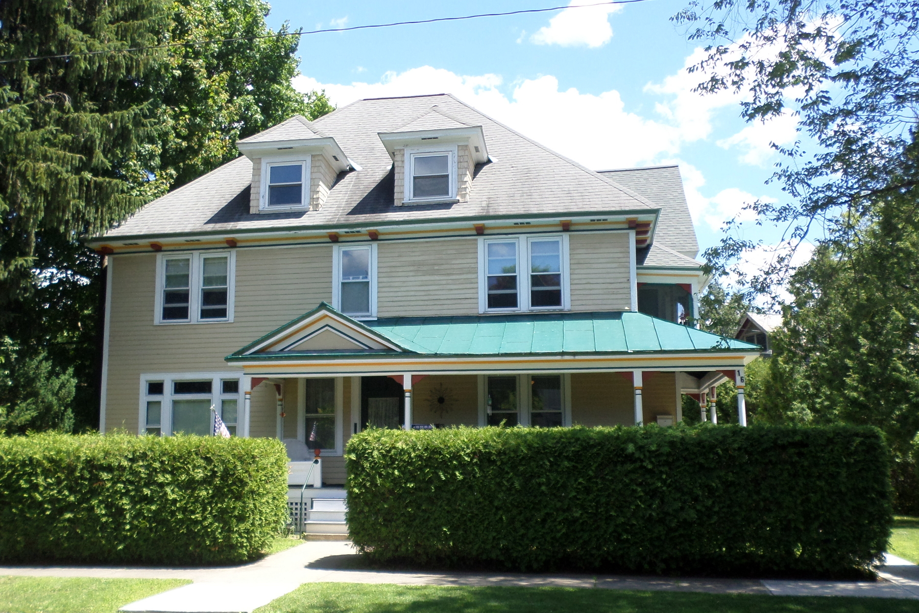 Home designed by Robert Newton Brezee (1896)